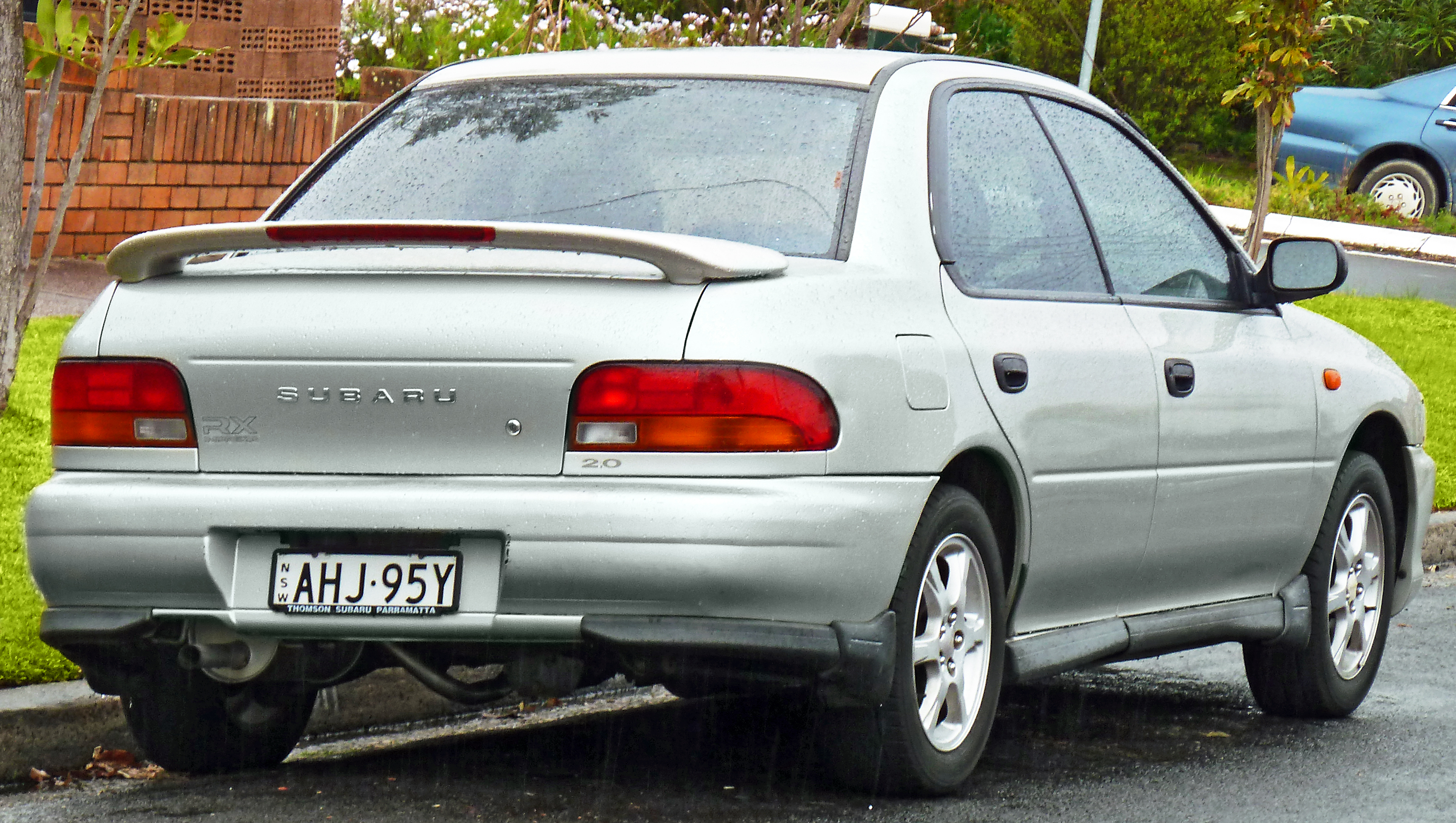 1999 Subaru Impreza (GC8 MY99) RX AWD sedan. Photographed in Chatswood, New South Wales, Australia.